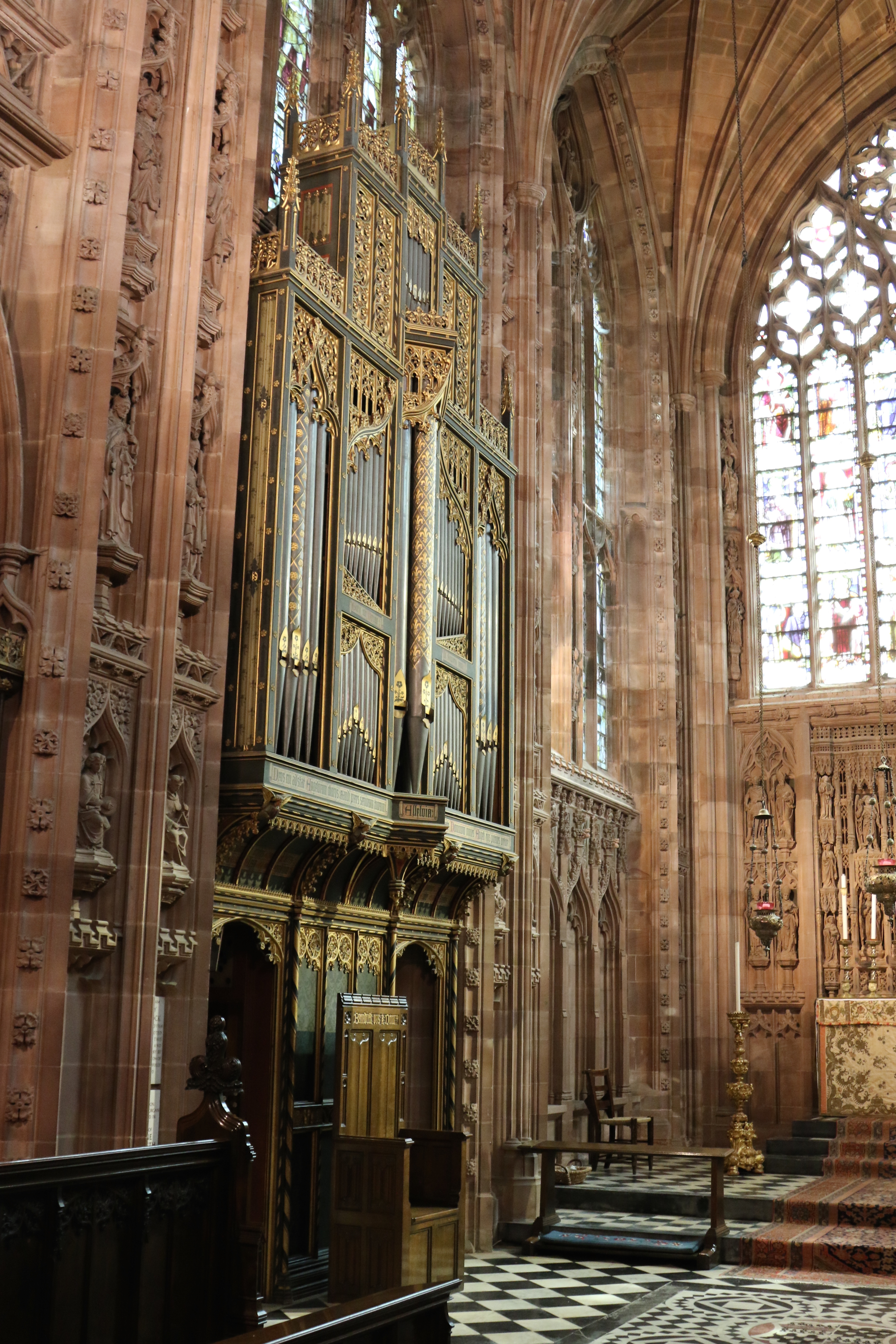 The organ in the chancel of the Church of the Holy Angels, Hoar Cross